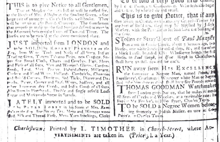 South Carolina Gazette 2 2 1734 bottom of fourth page